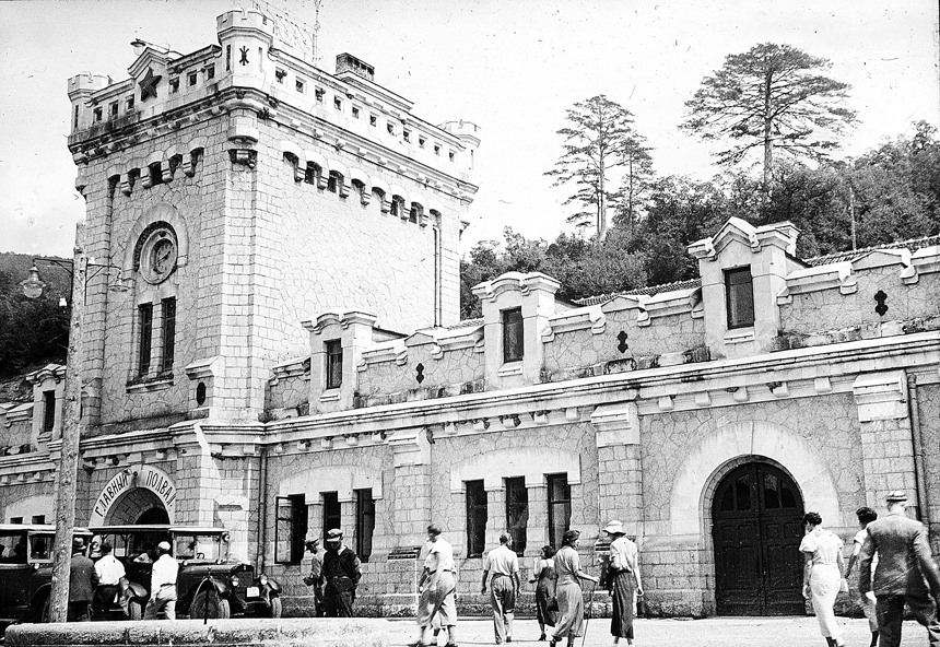 Massandra winery main building, 1920s